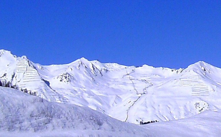 Parsenn, Davos, Switzerland